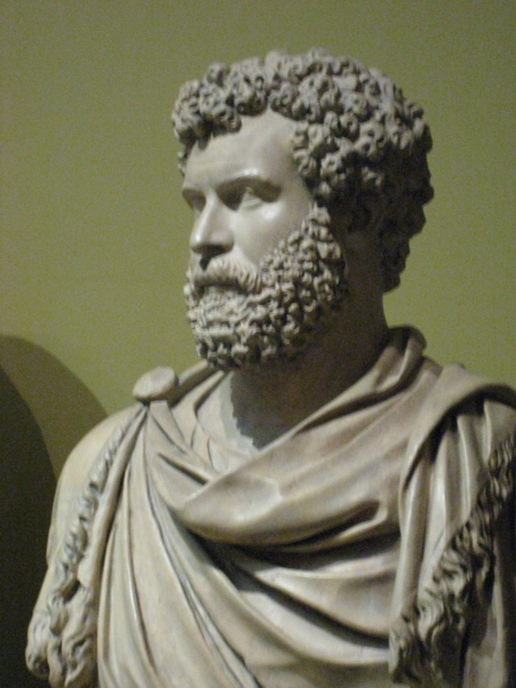 Emperor Clodius Albinus. Cast in Pushkin Museum after original in Louvre, II c.